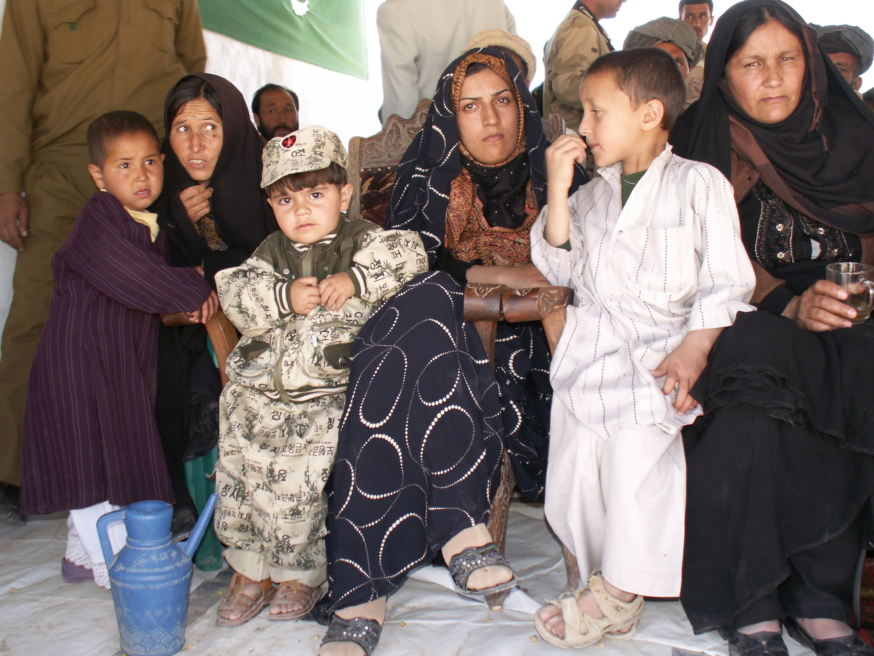 Extended family. Chagcharan Ghowr province. May of 2007. Photo by Corporal Vilius Džiavečka, Lithuania.